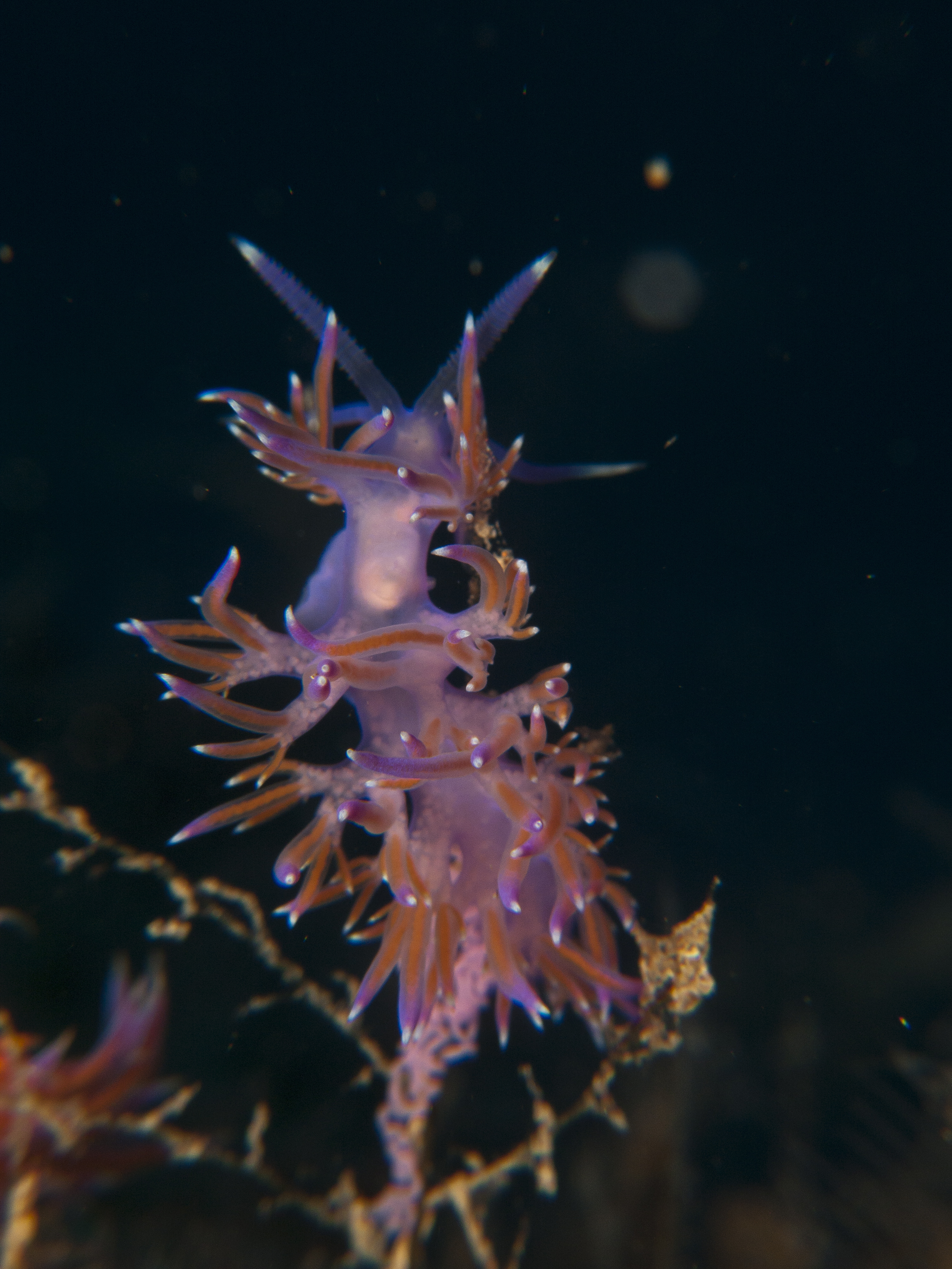 F. ischitana laying eggs on an hydroid.